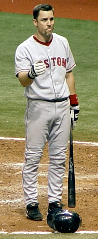 Bill Mueller requests a new batting helmut, September 20, 2005. 21:29, 21 September 2005 . . Googie man . . 410×1000 (185 KB)